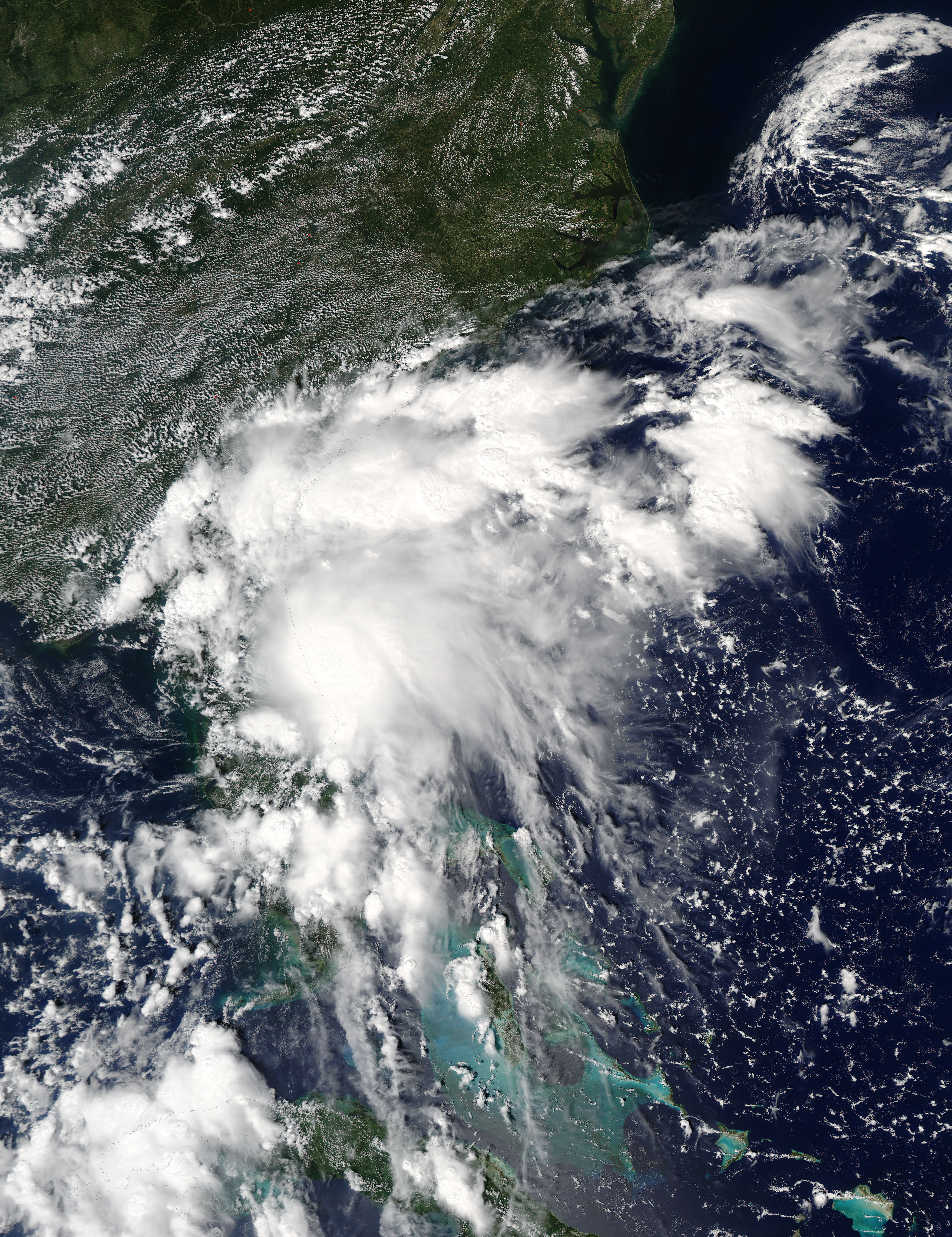 Tropical Storm Julia (11L) over Florida